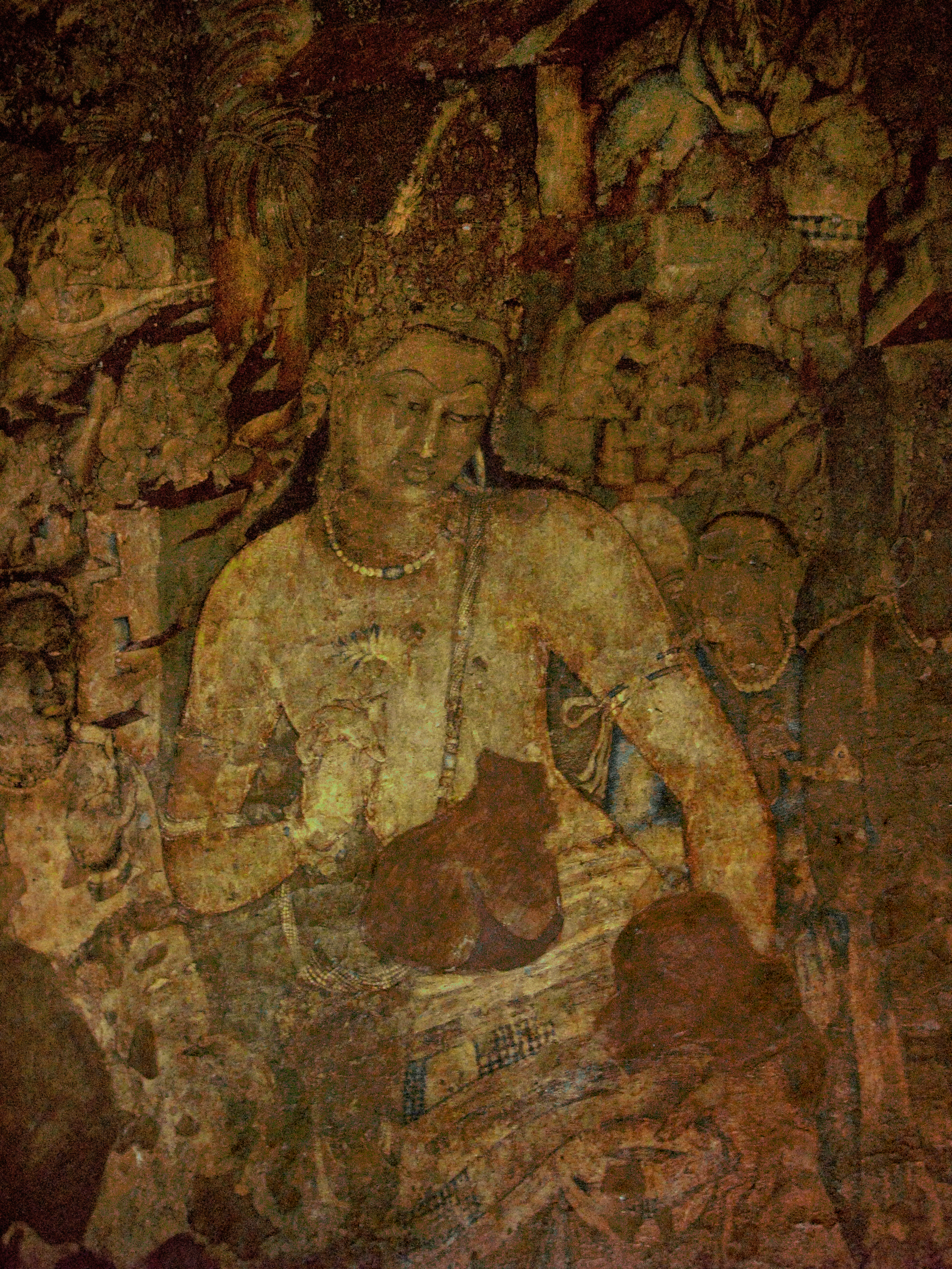 The famous painting of the bodhisattva Padmapani in Ajanata caves now a world Heritage site. This one of the best paintings remaining from the Pre historic era when Budhism was at its peak... There is very limited lighting done inside the caves to protect the paintings from heat and no flash allowed...